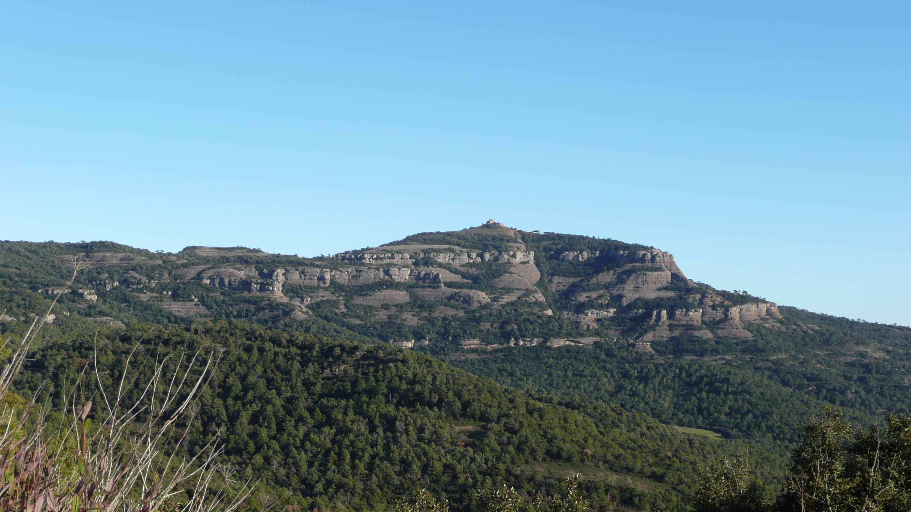 La Mola mountain. Sant Llorenç del Munt i l'Obac natural park, Barcelona, Spain.